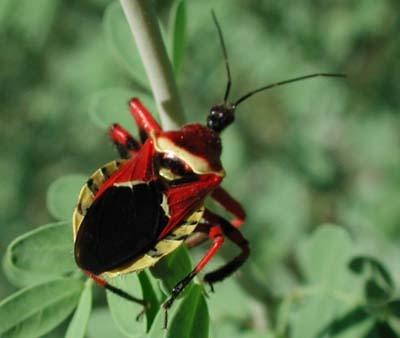 Apiomerus spissipes, an Assassin Bug, family Reduviidae often called the Bee Assassin for its predation on bees. Photographed in Maricopa County, Arizona, USA